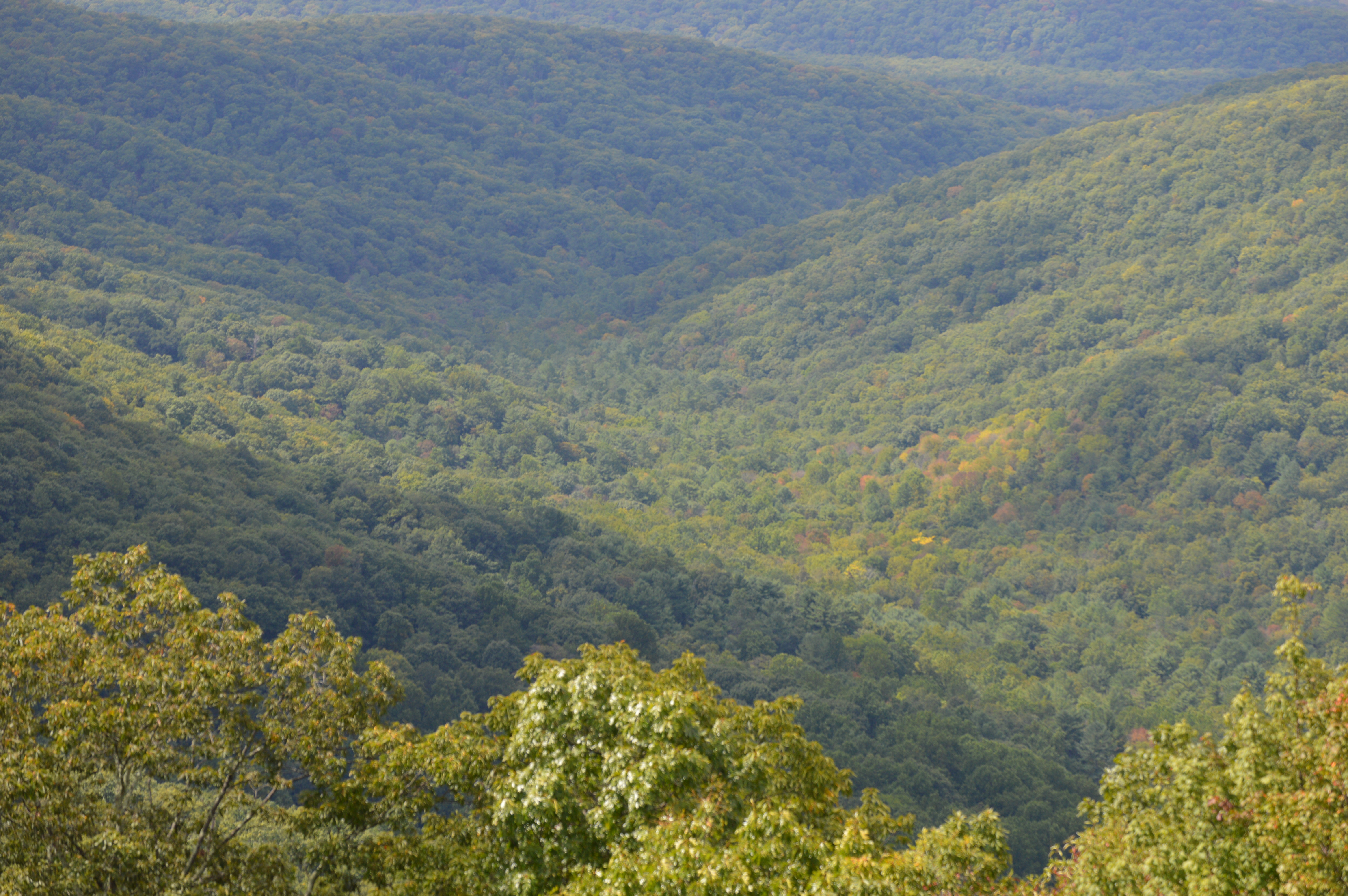 Looking down into the Jeremey's Run valley from Skyline Drive (in Shenandoah National Park) in Page County, Virginia, United States. Here in the valley is the Jeremey's Run Site, an important archaeological site; it is listed on the National Register of Historic Places.